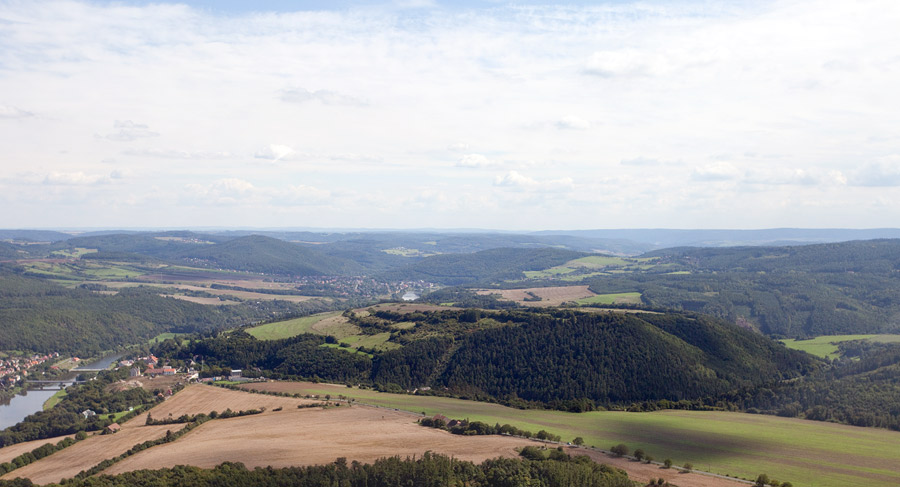 oppidum Stradonice, Czech Republic